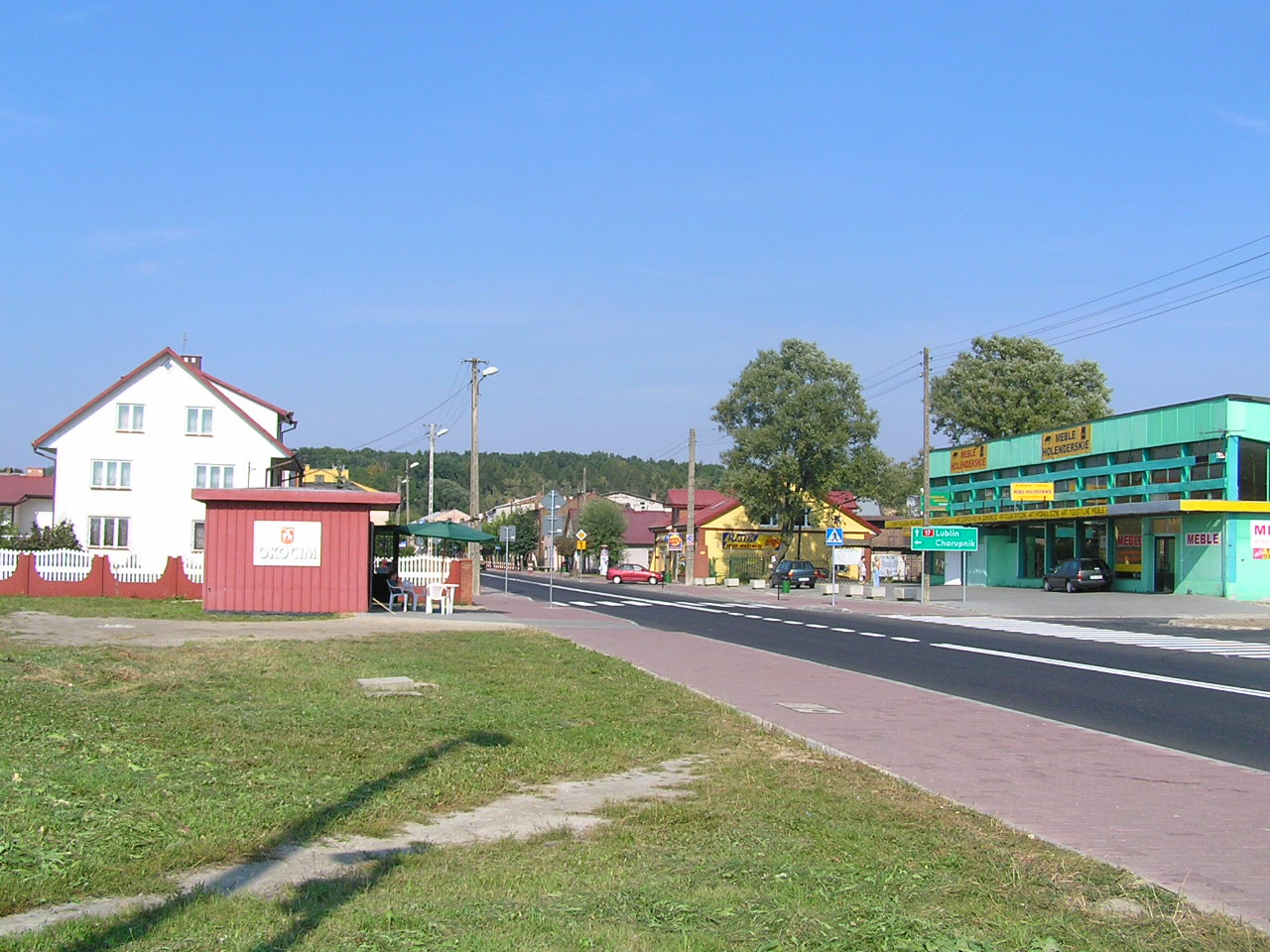 autor: Yarek shalom 08:16, 11 October 2006 (UTC)yarek shalom